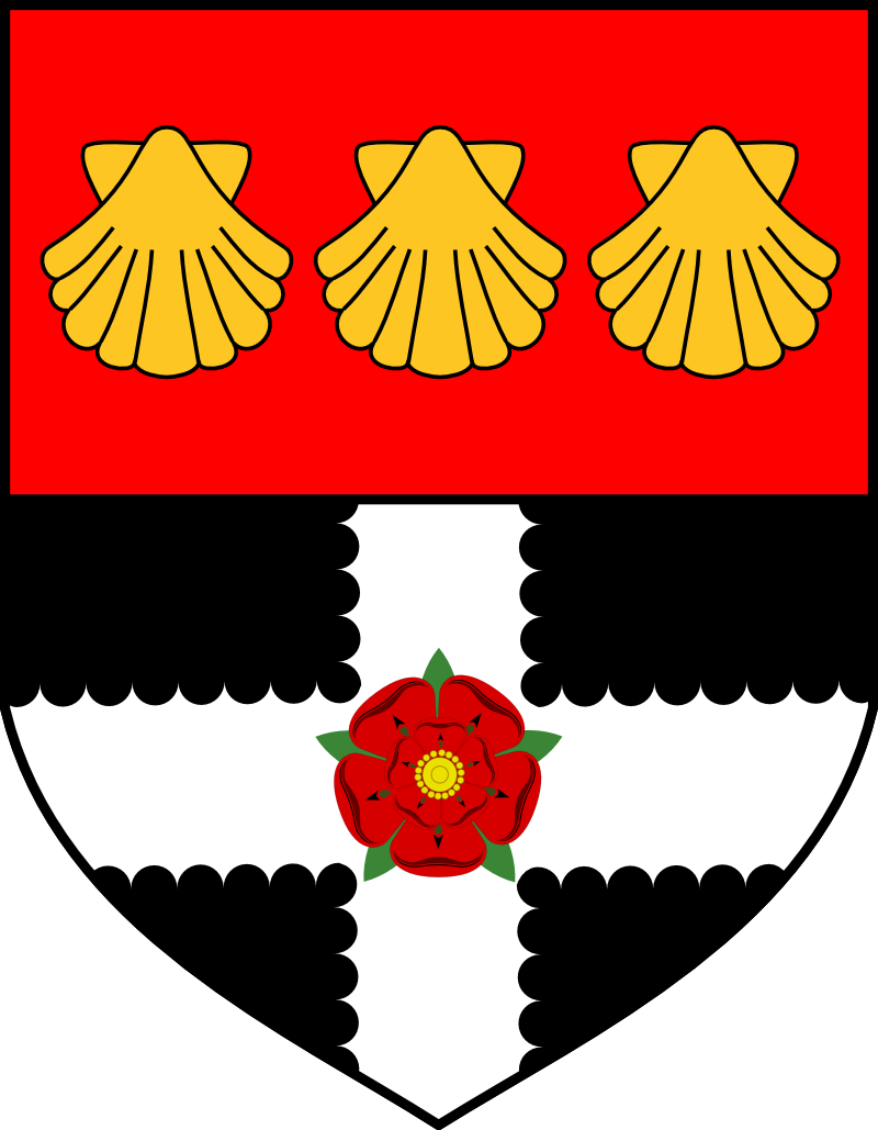 University of Reading shield